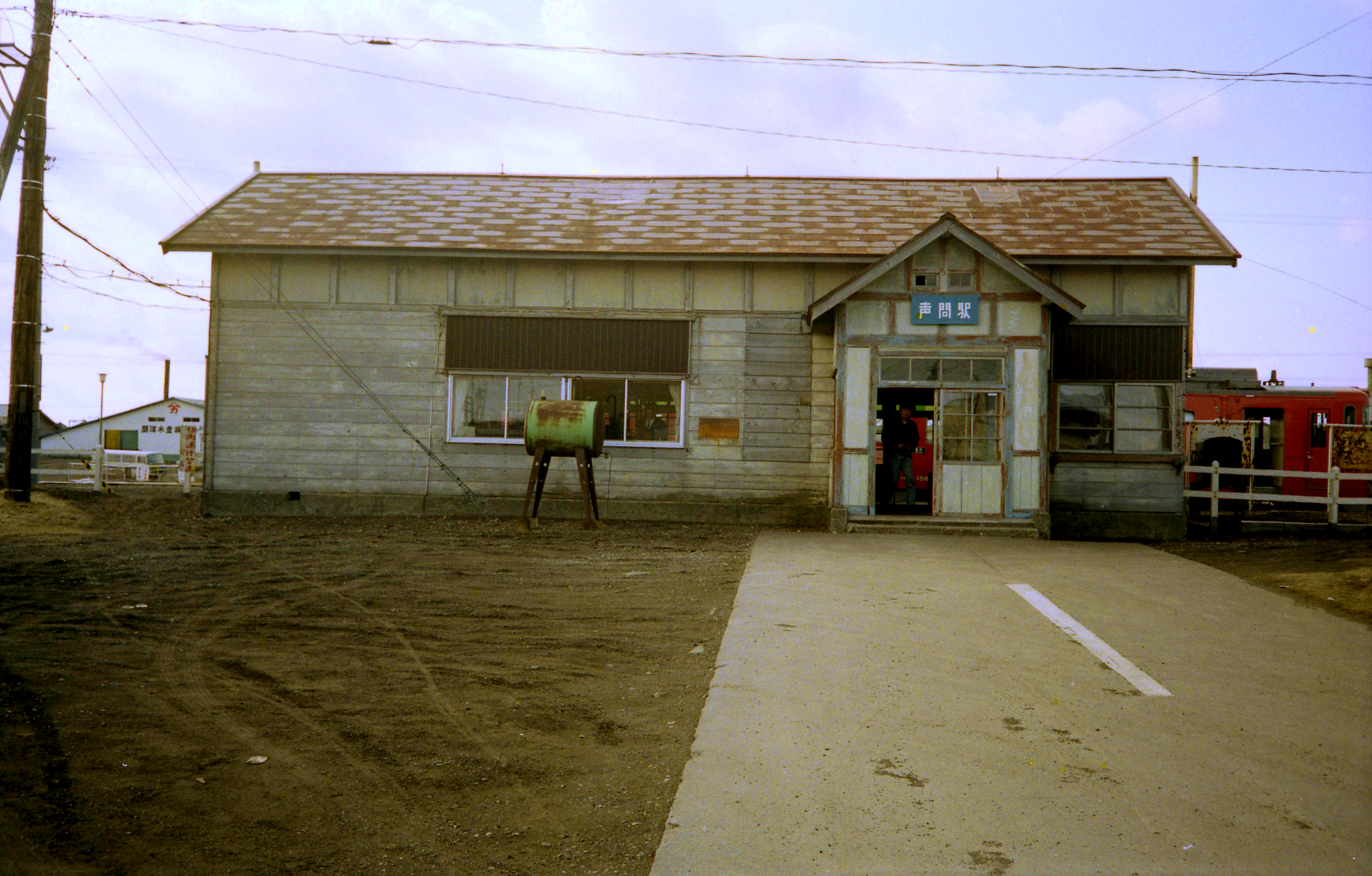 The building of Koetoi Station,Hokkaido Railway Company Tenpoku Line(before abolished)